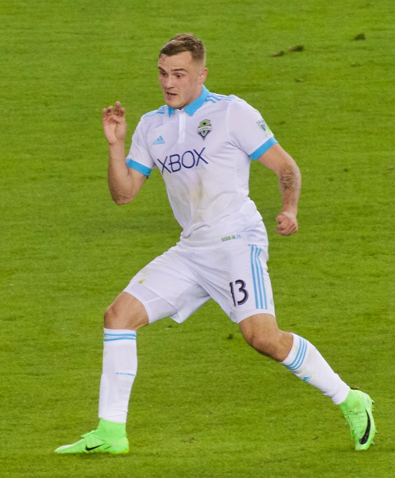 Jordon Morris playing for Seattle Sounders at Avaya Stadium in San Jose, California, on 8 April 2017